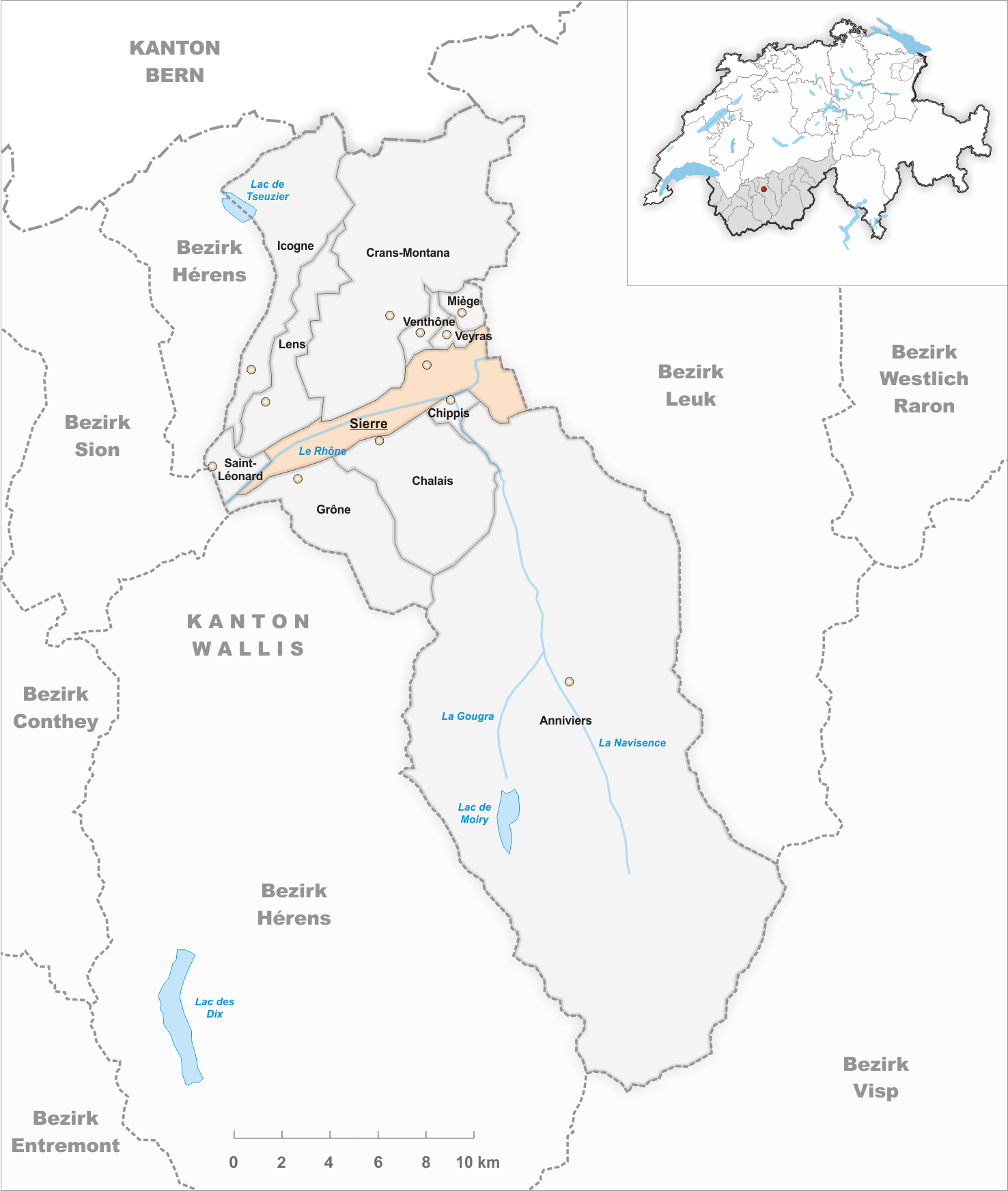 Municipality Sierre